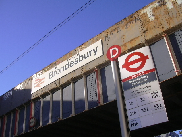 Brondesbury Overground station, London, prior to its transfer from Silverlink